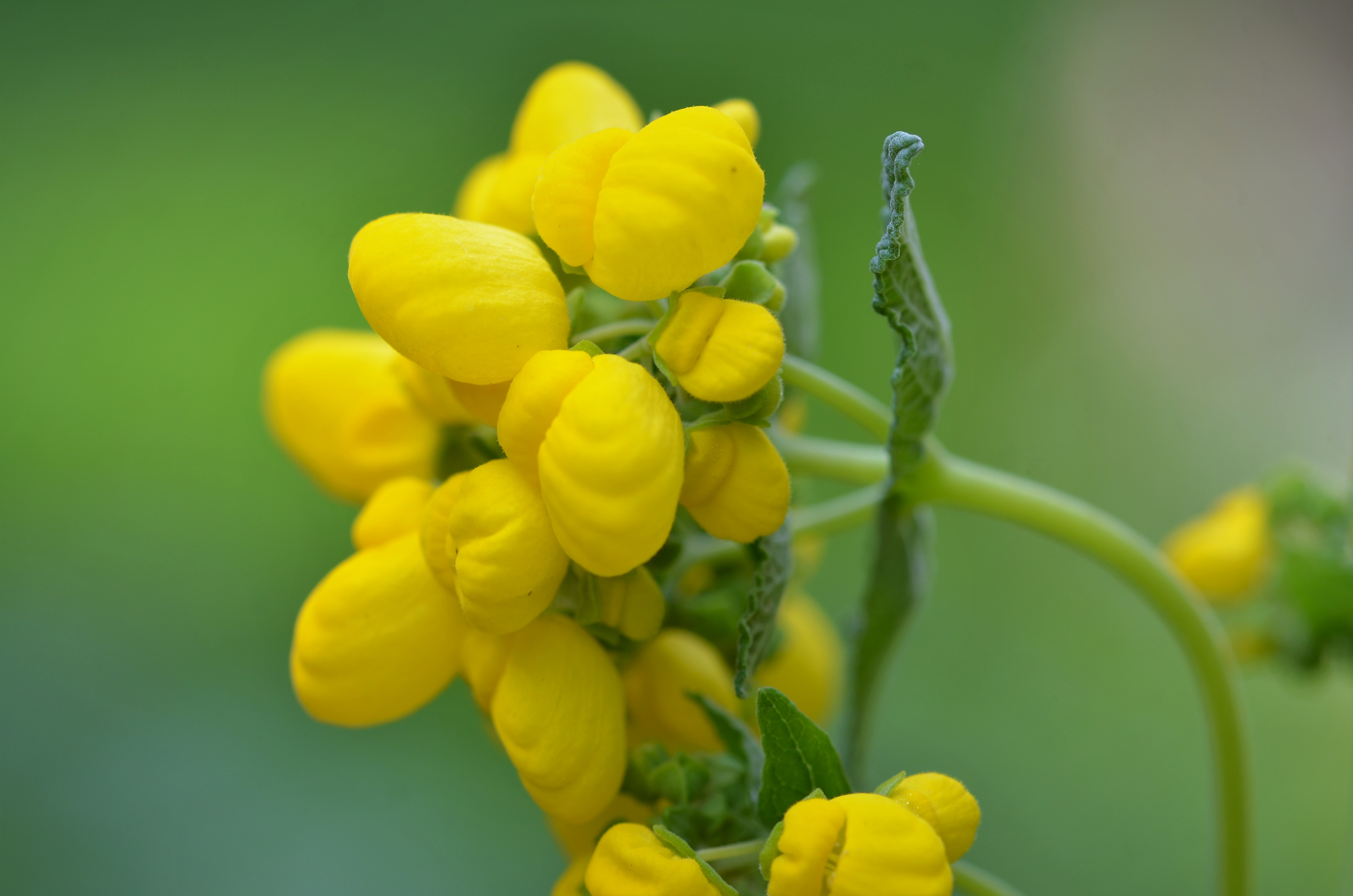 Calceolaria integrifolia (flowers)